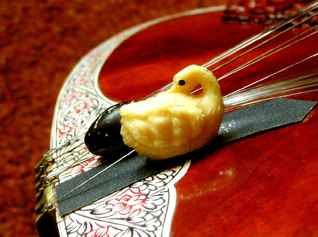 detail of sitar fine tuning beads